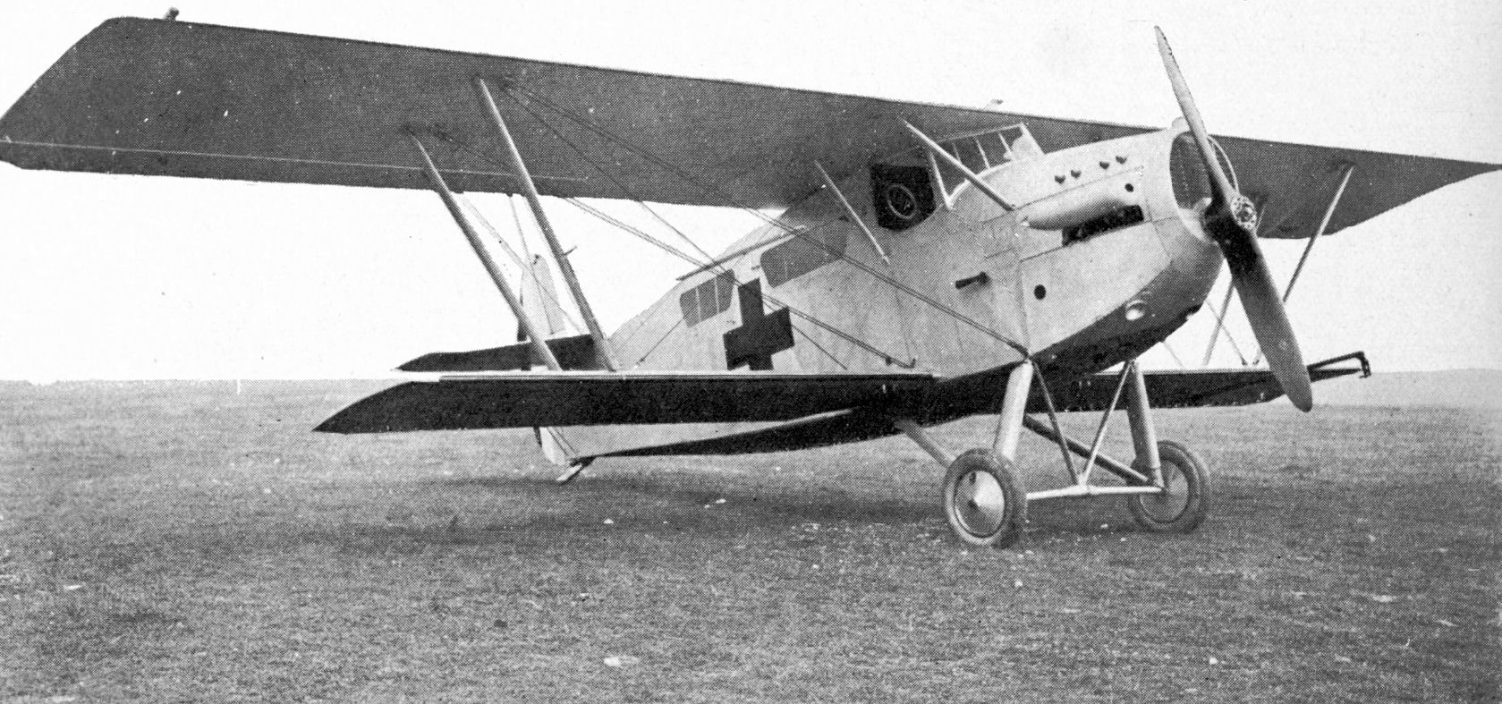 Potez 29 photo from L'Air May 15,1928